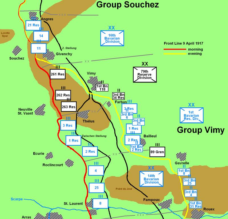 German Dispositions at Vimy 9 April 1917.